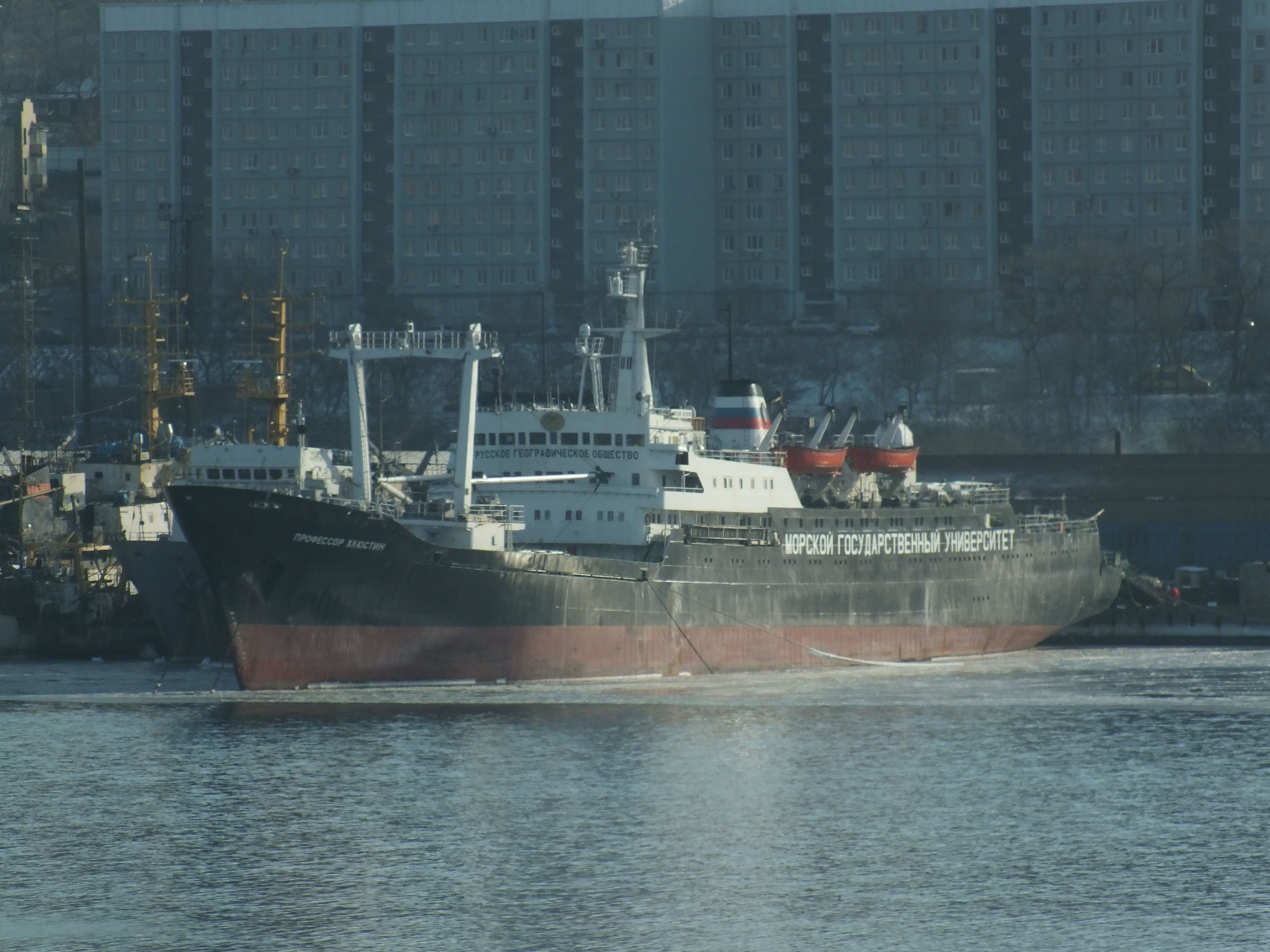 MS Professor Khlyustin at Vladivostok